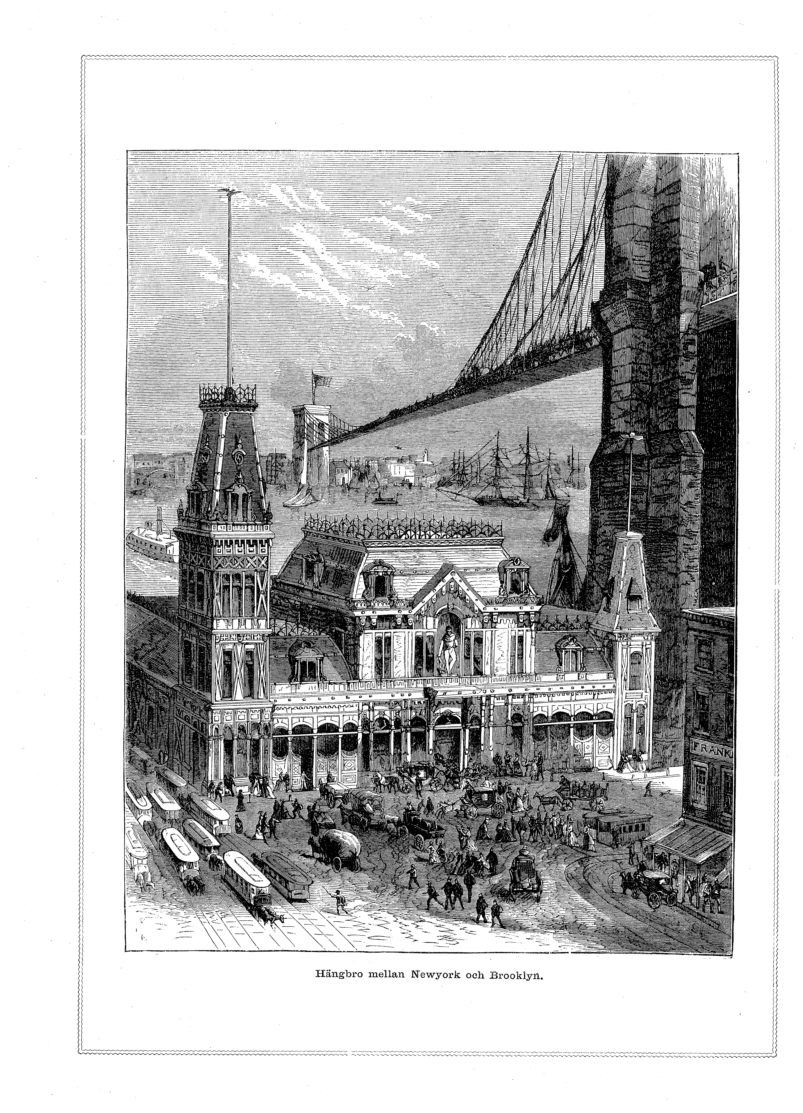 Brooklyn Bridge, also known as the East River Bridge, seen from Manhattan, as drawn (and woodcut) in a Swedish monthly magazine. Featuring the Fulton Ferry House (to be made obsolete by the bridge) in the foreground.